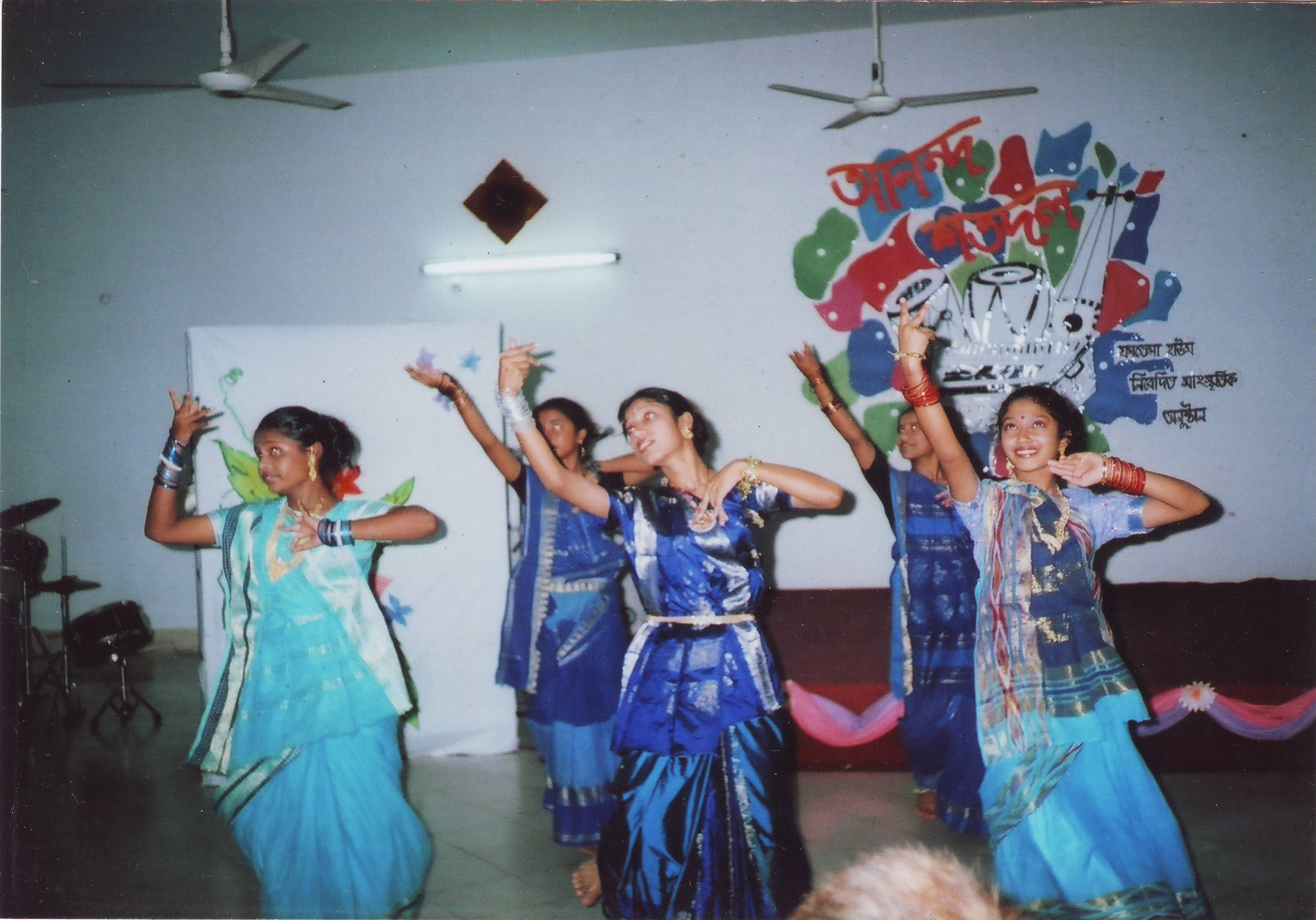 Feni Girls Cadet College, Bangladesh. Cadets dancing.